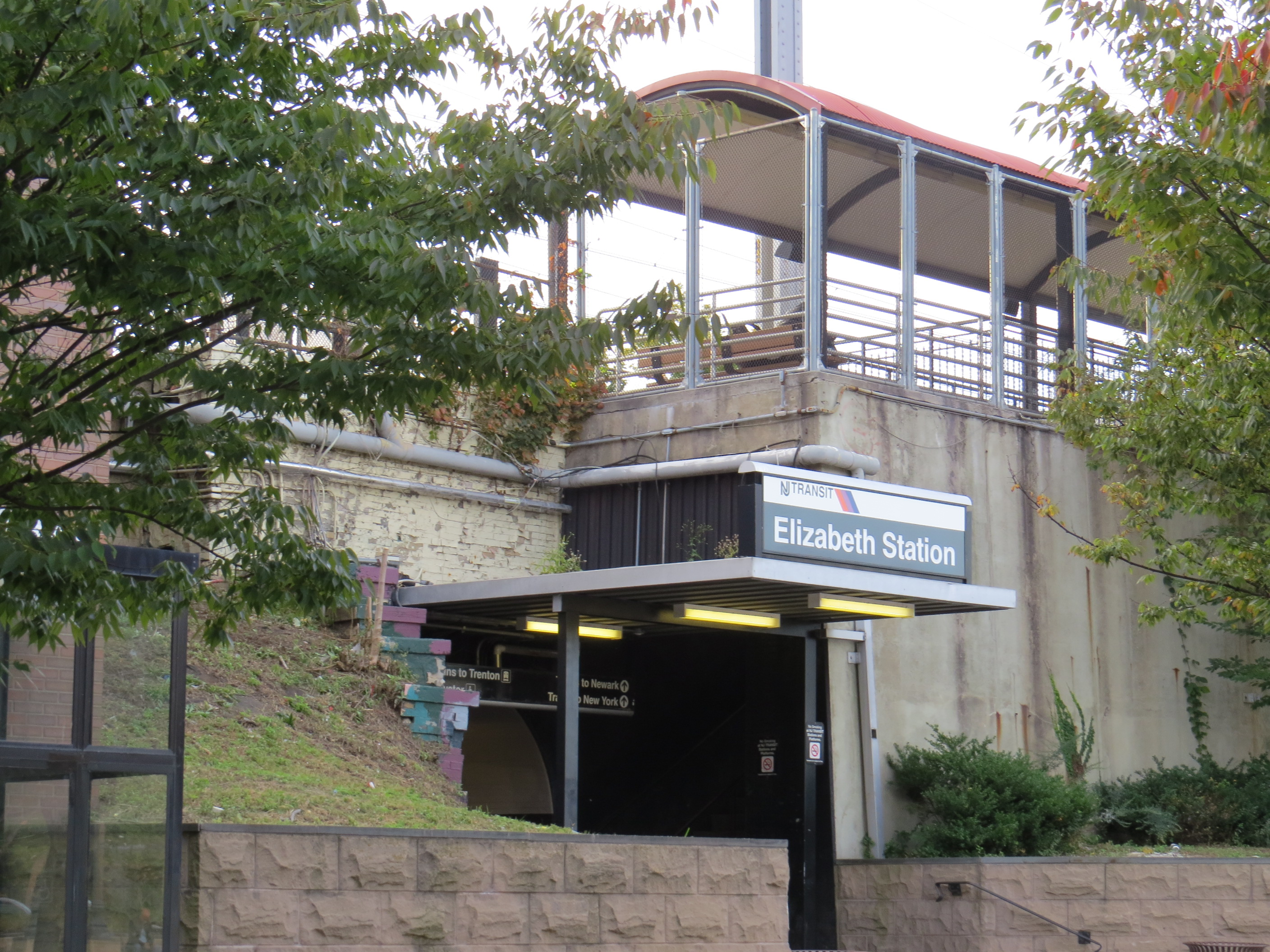 station entrance, Elizabeth NJ